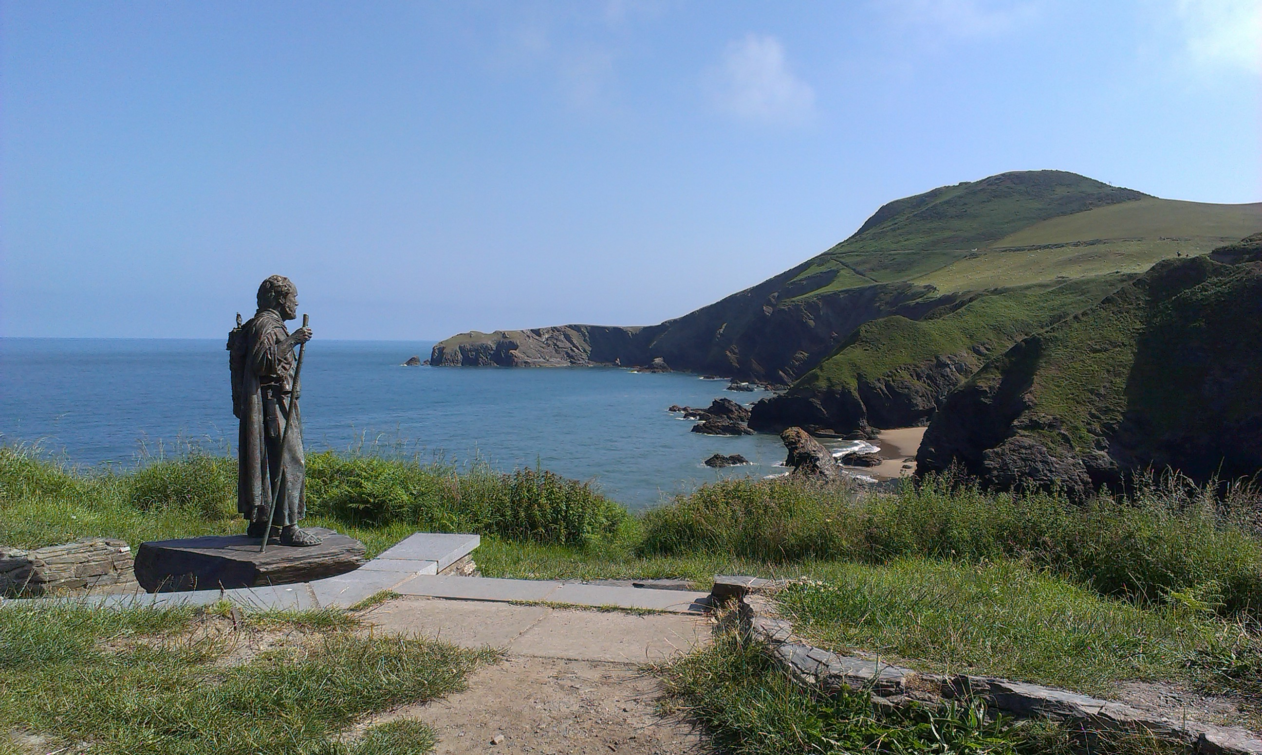 Statue of Saint Carantoc in Llangrannog